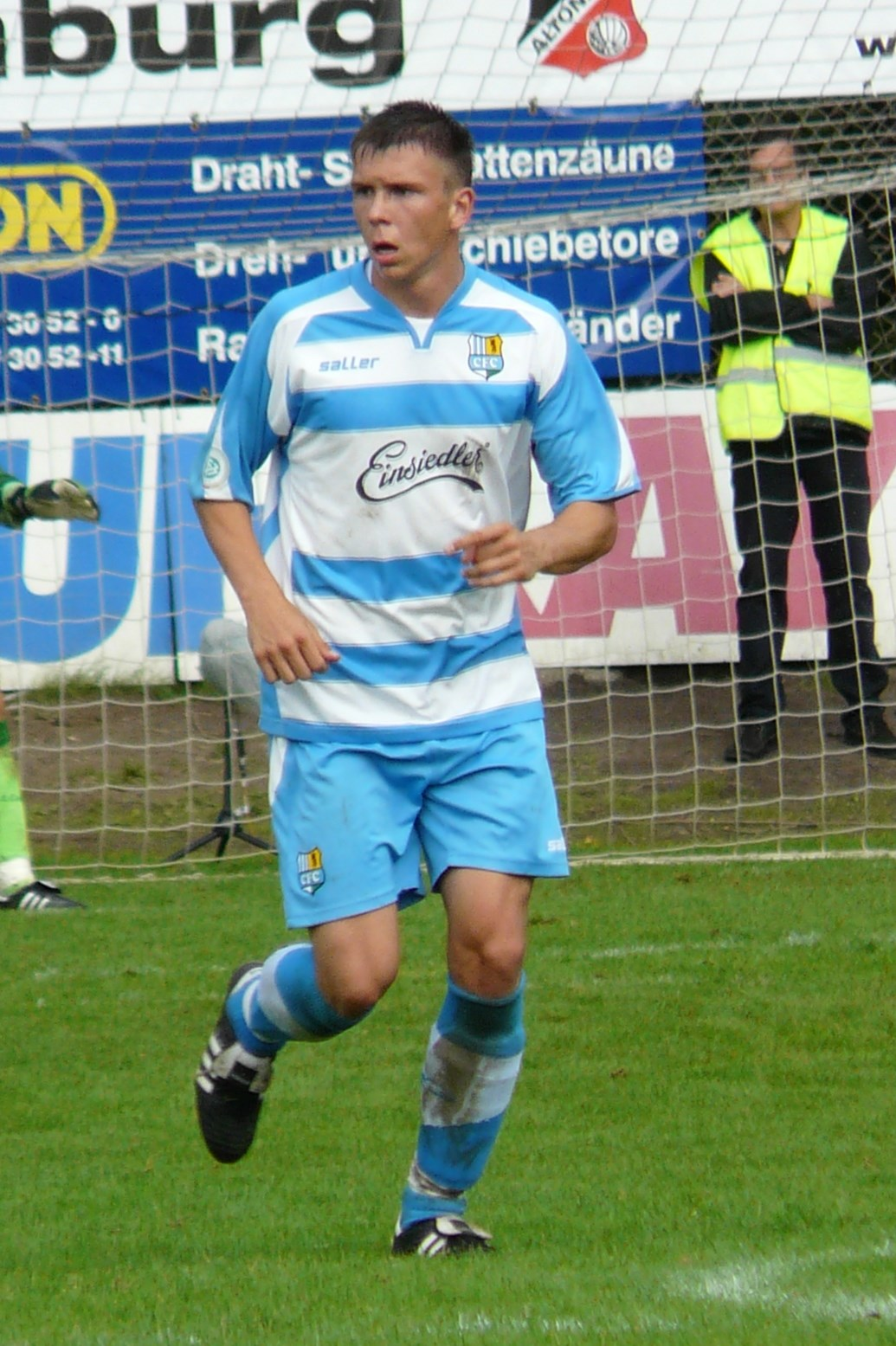 Marcel Wilke as Player from Chemitzer FC